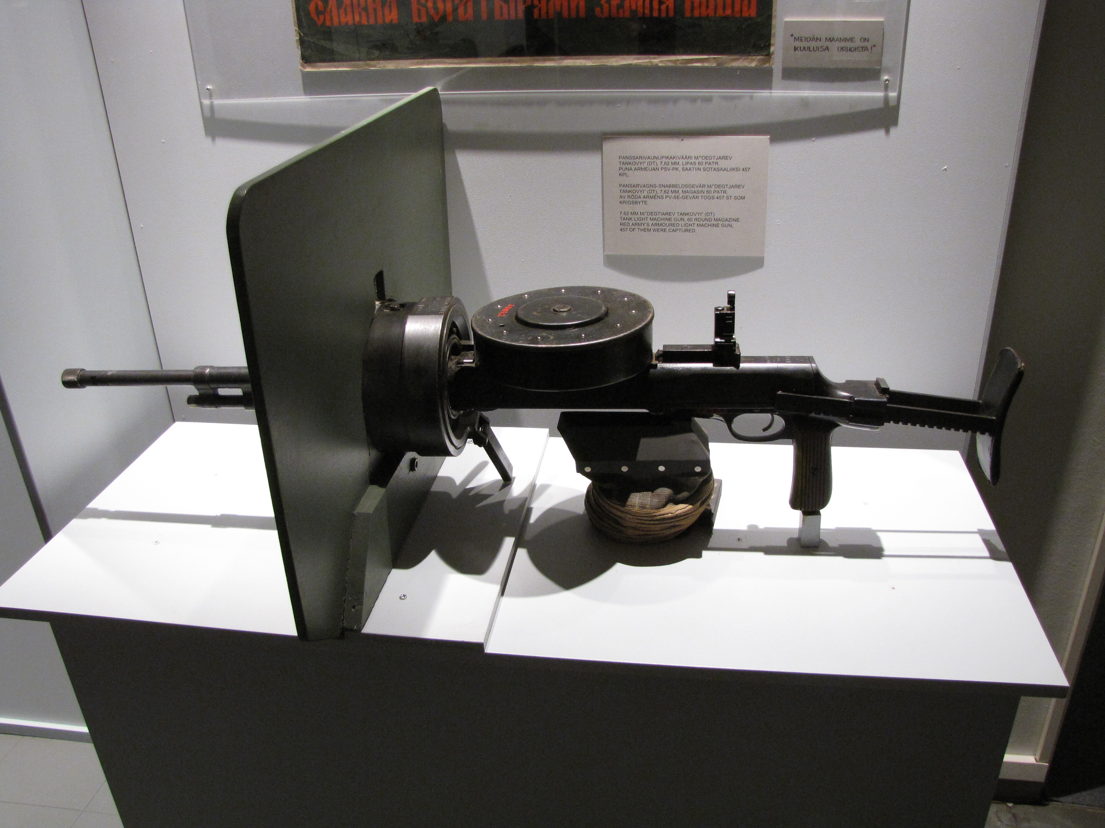 DT (Degtyaryova Tankovy) tank version of Degtyarev light machine gun. Photographed in the "Winter War - 70 years" exhibition in the Military Museum of Finland.